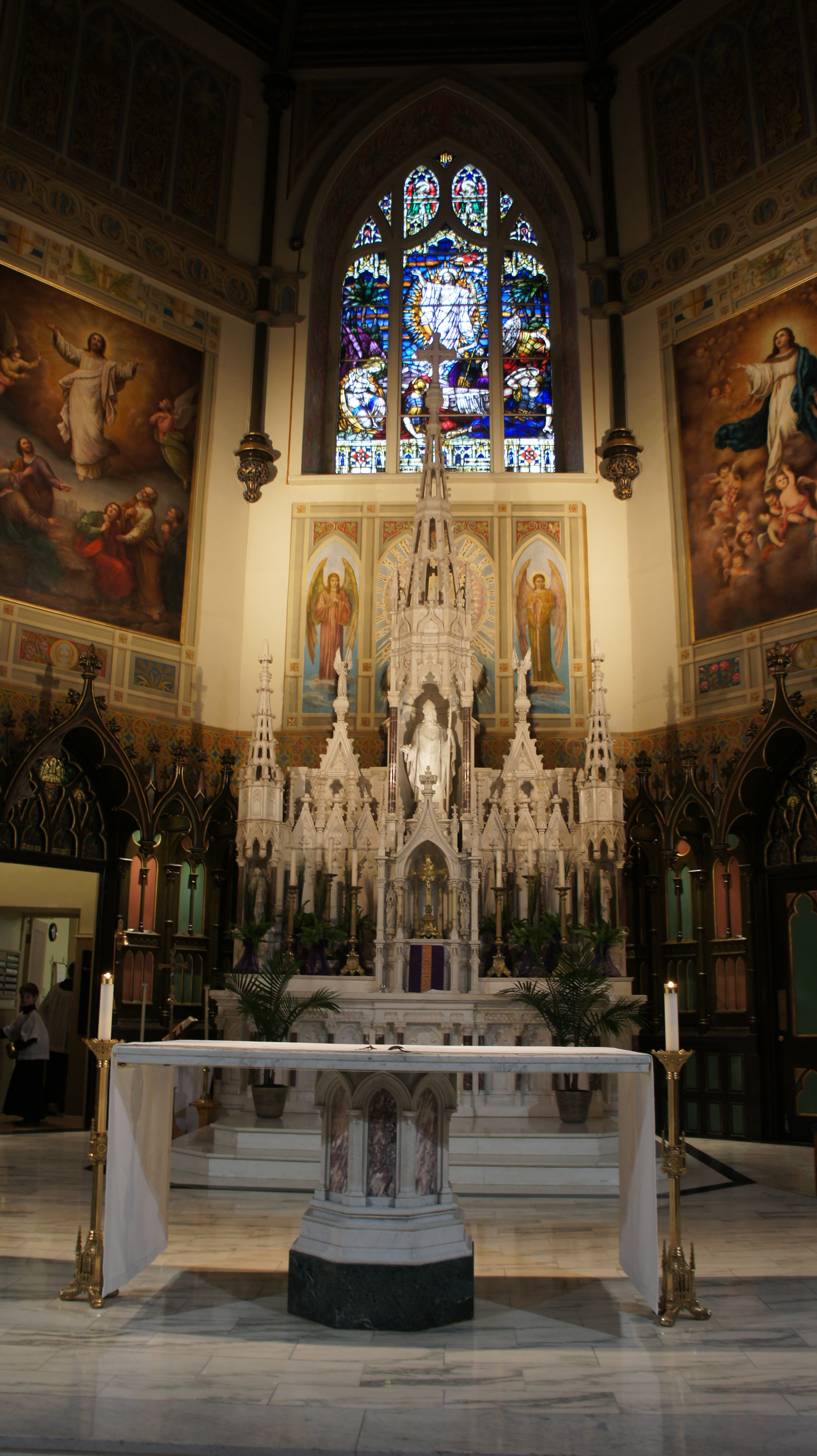 The Altar in St Patrick's Basilica, Ottawa, ON.